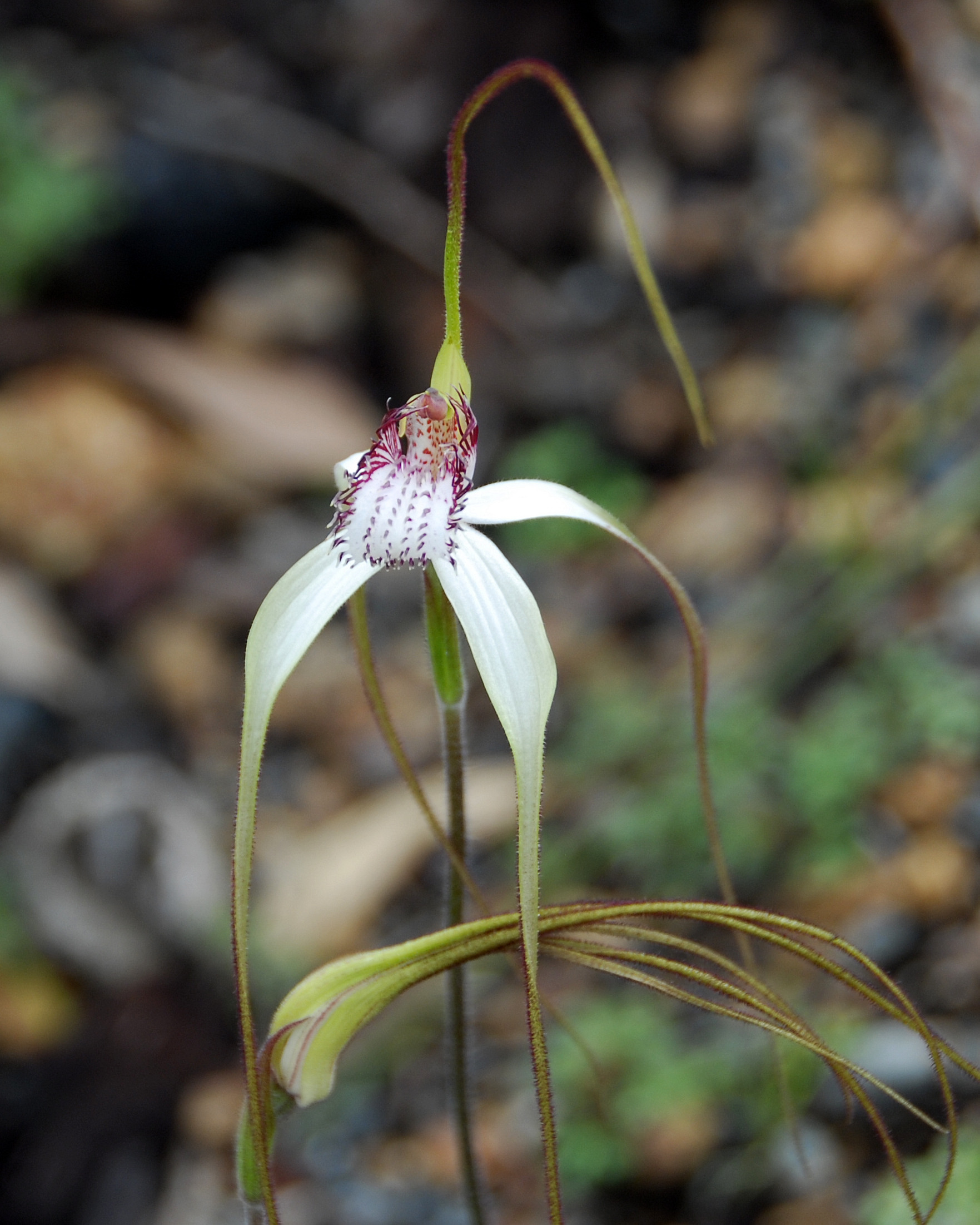 Caladenia longicauda species, photographed in John Forrest National Park, Western Australia.